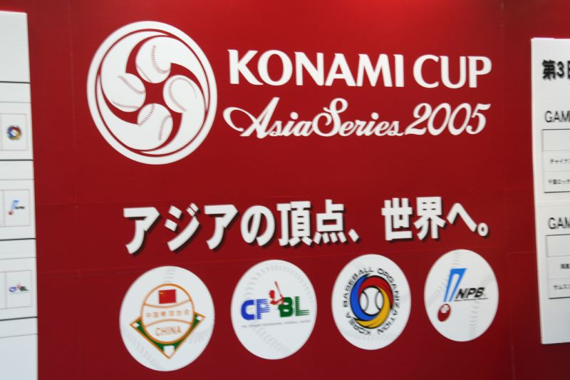 Konami Cup Asia Series 2005